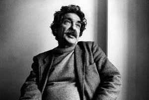 Benno Besson a Swiss actor and director. He had great success as director at Volksbühne Berlin, Deutsches Theater and Berliner Ensemble in East-Berlin